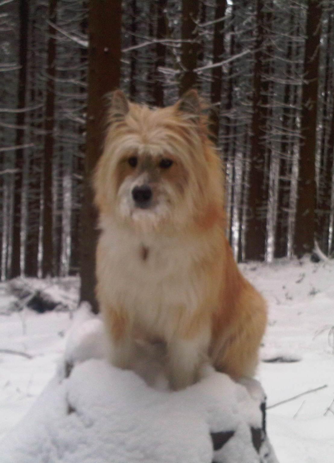 adult Elo dog